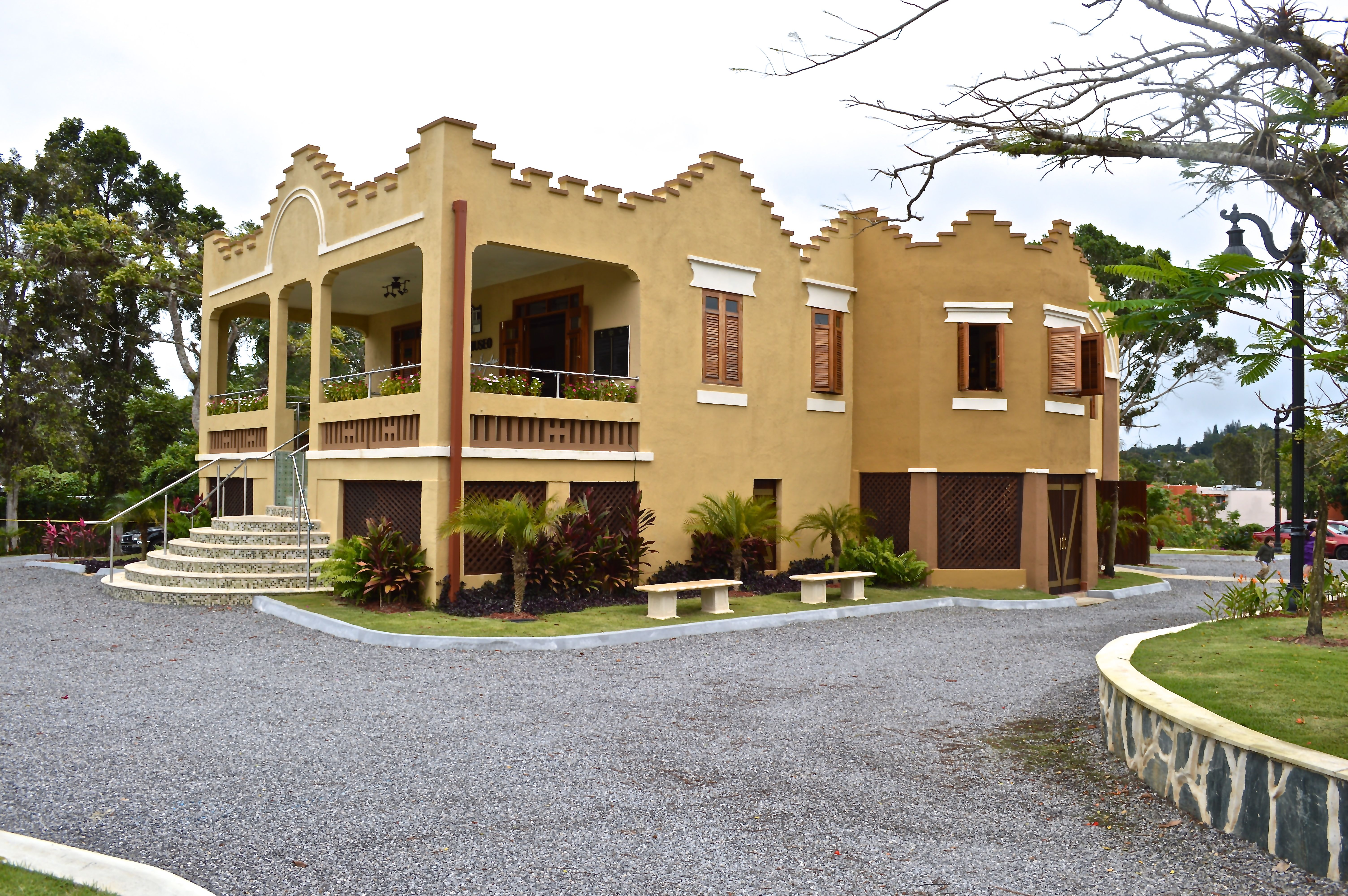 Picture taken by me on December 21, 2012 of Federico Degetau's home in Aibonito Puerto Rico..